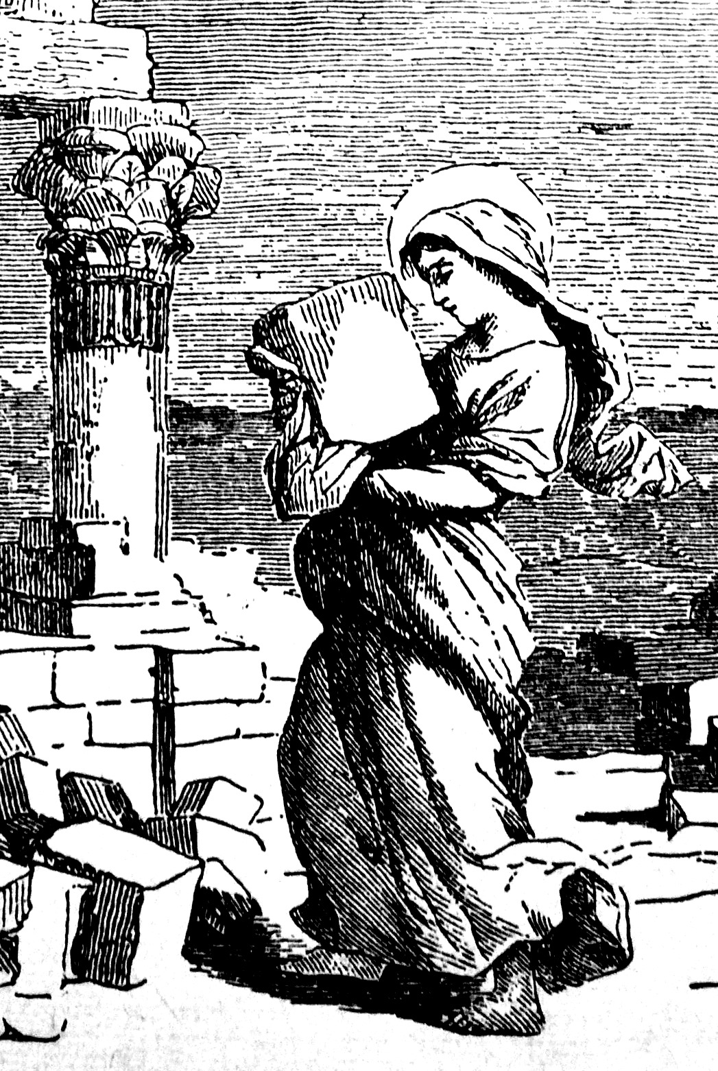 A cropped image of Saint Euphrasia